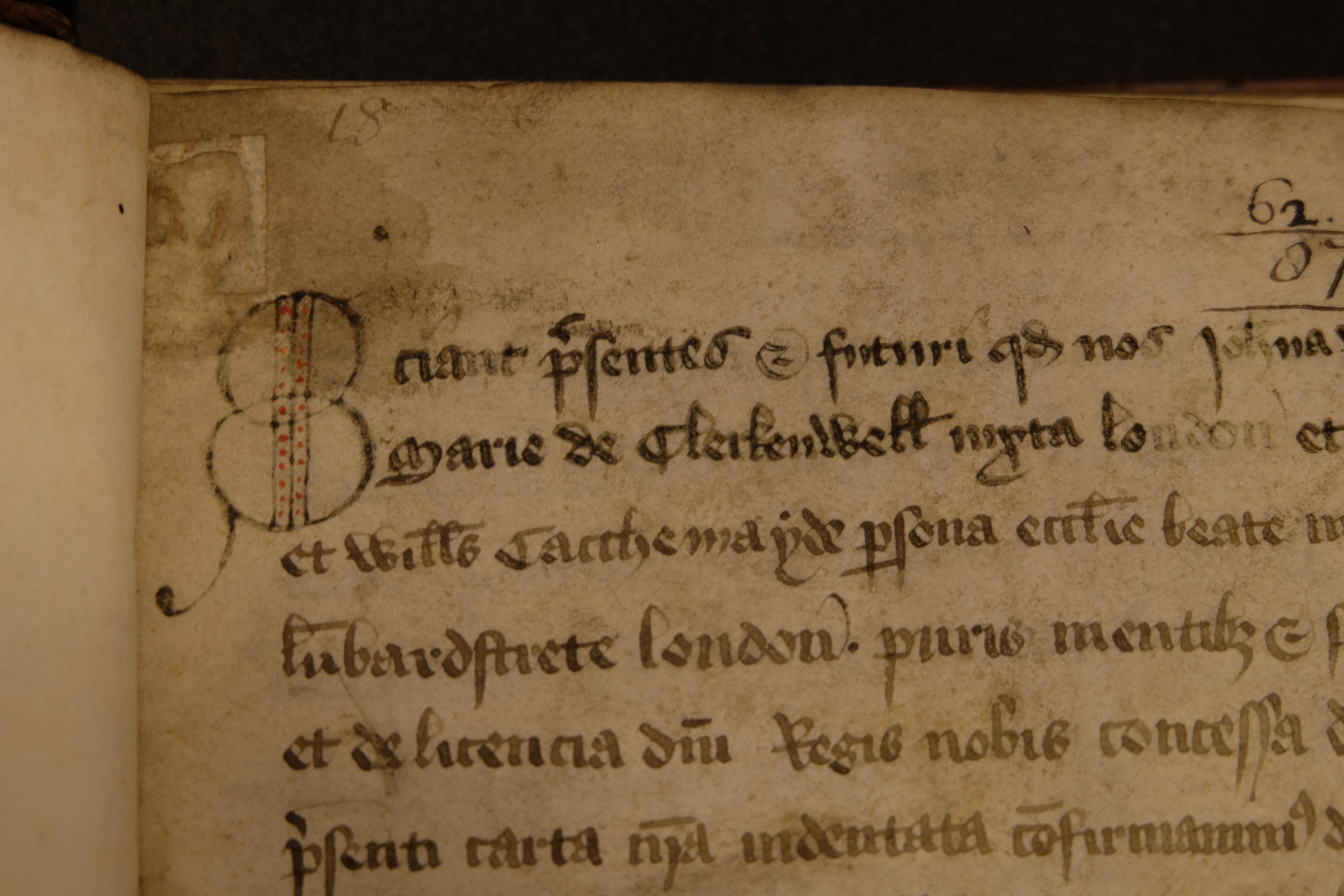 Fifteenth-century register of deeds and wills. Initial letter 'S' shaped as a figure 8 and decorated with red dots. London, British Library, Harley MS 877, fol. 1r.